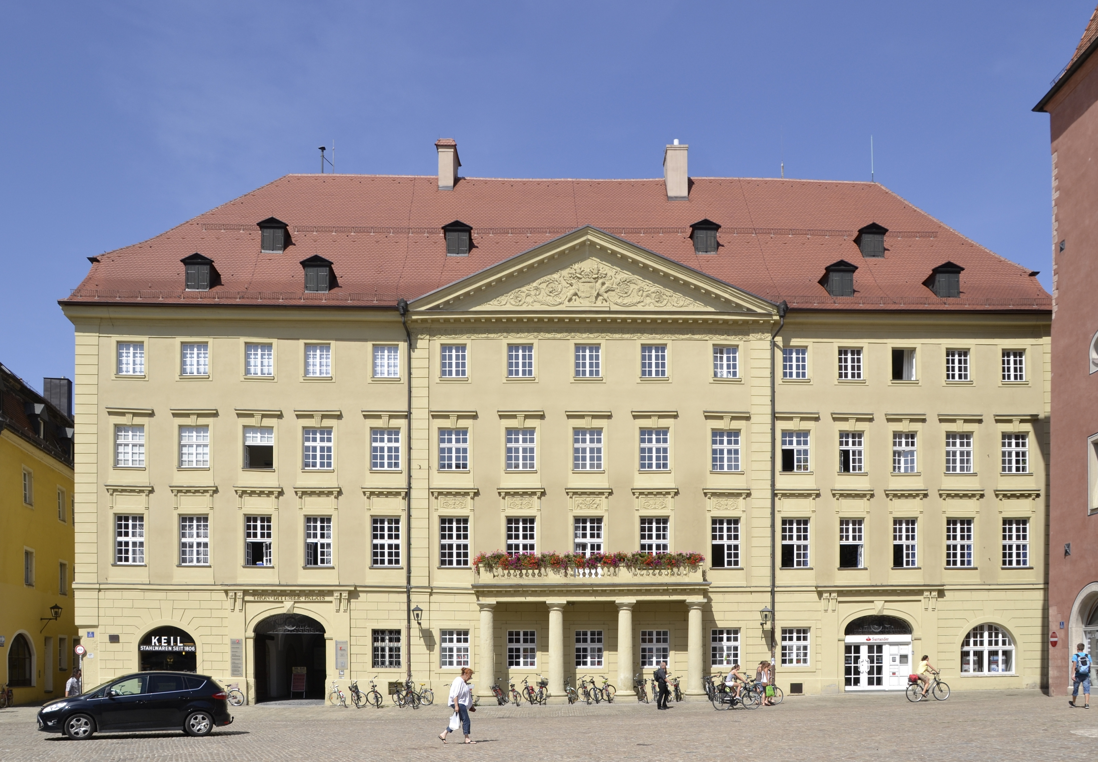 The Thon-Dittmer-Palais at the Haidplatz in Regensburg, Bavaria.